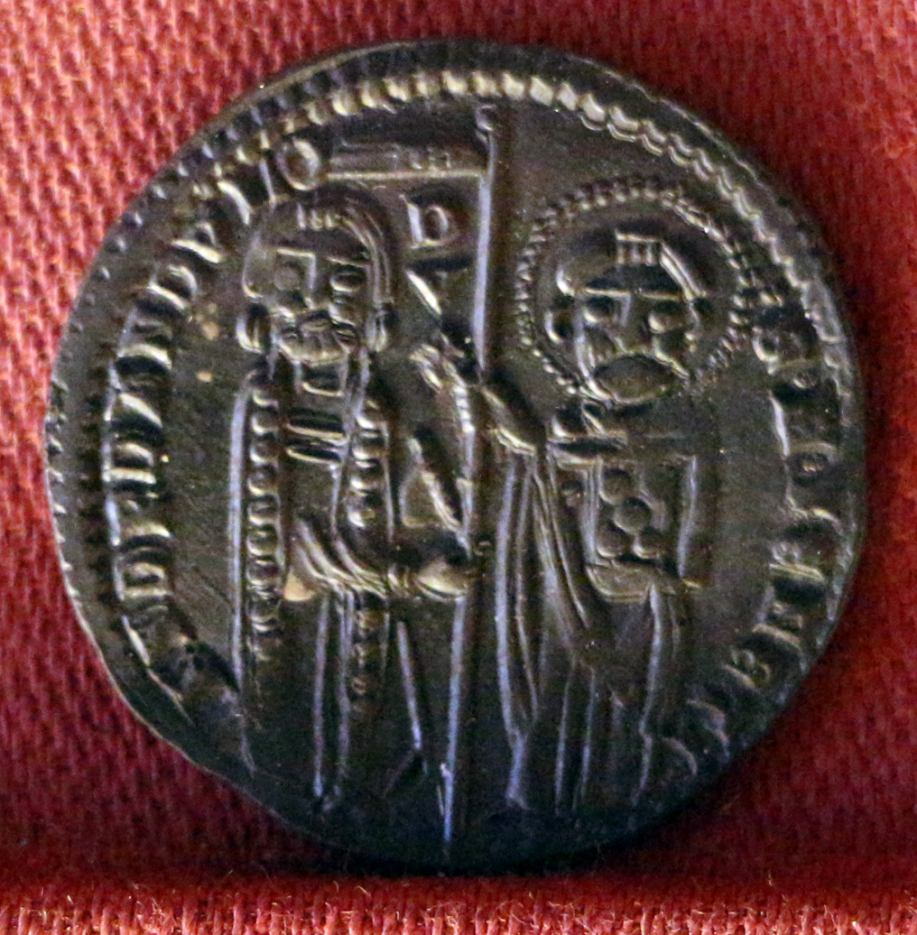 Coins of Venice in the Museo Correr (Venice)